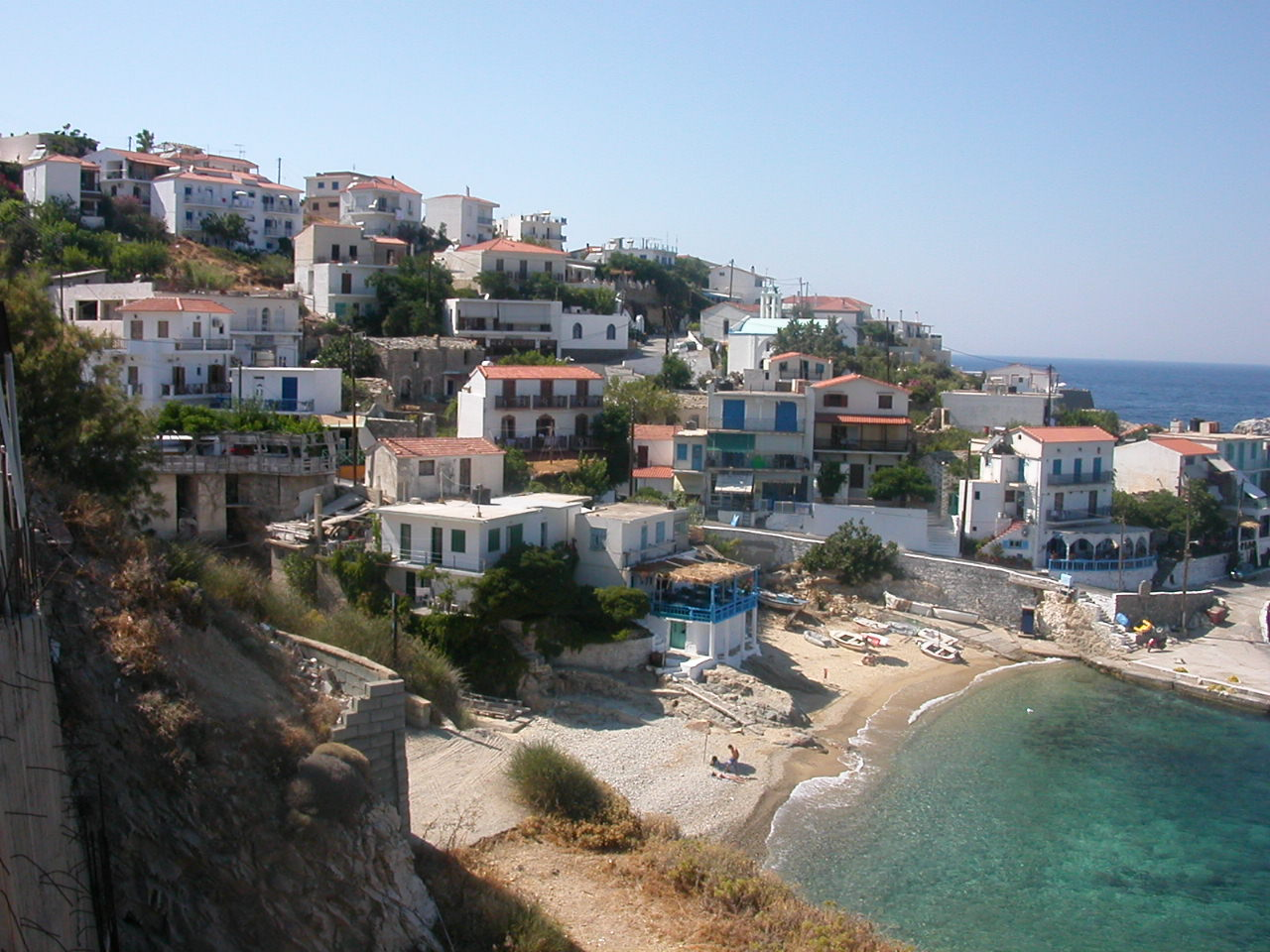 Armenistis, village in northern Icaria